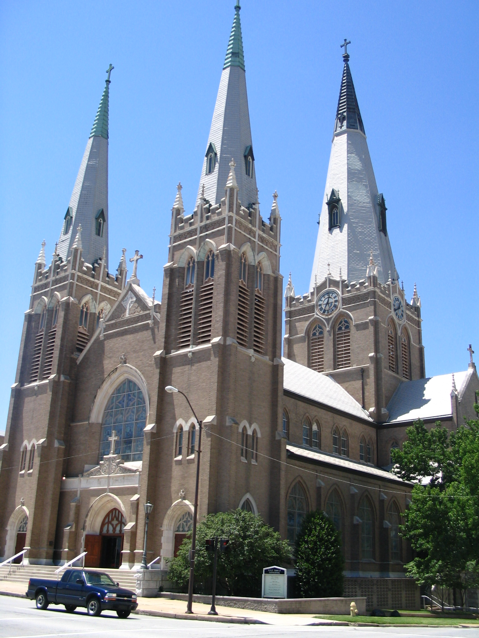 Holy Family Cathedral in Tulsa, Oklahoma. Photo taken by NMajdan.